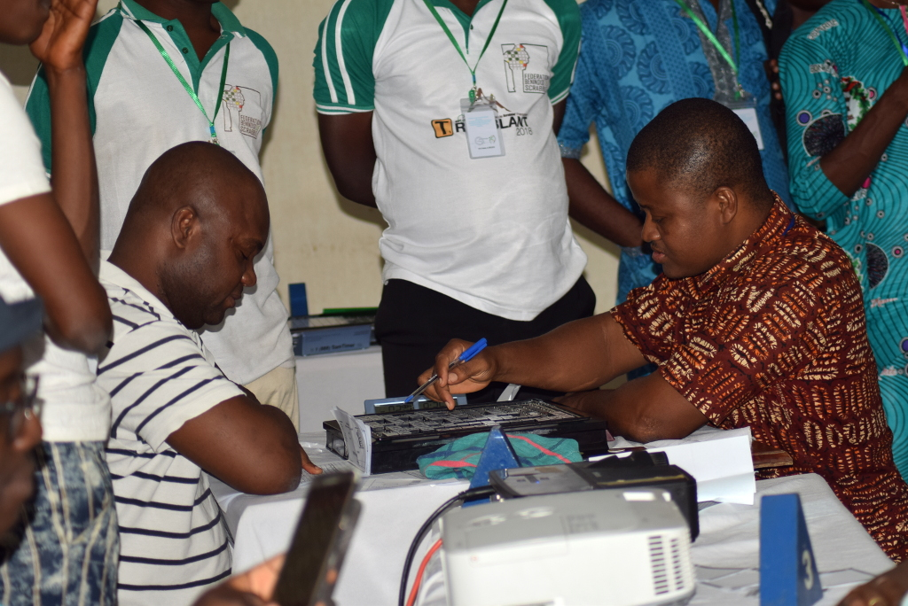 Benin, Championnats nationaux de scrabble 2019, Epreuve classique. Joel Arsène Noumonvi prenant le meilleur sur Julien Affaton, ancien champion du monde de scrabble classique This is an image with the theme "Play" from: Benin